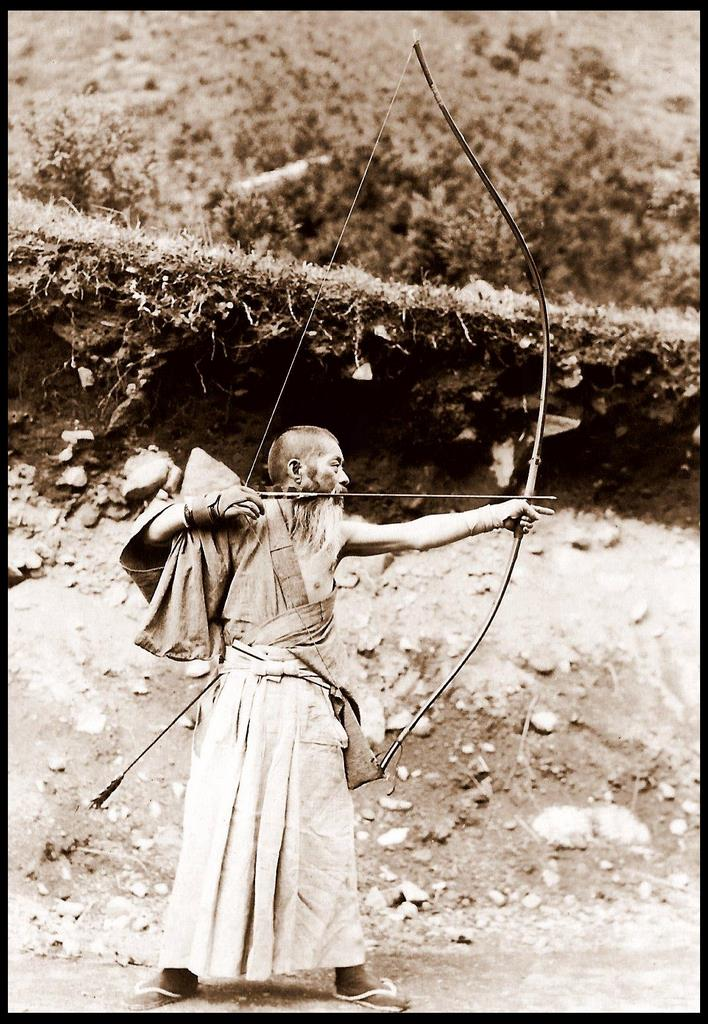 Japanese archer 弓道 Kyudo 弓術 Kyujutsu